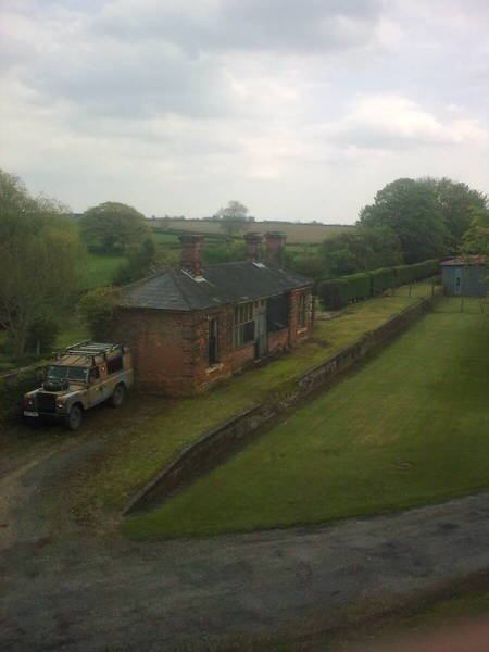 Cockfield Station - Suffolk - April 2010